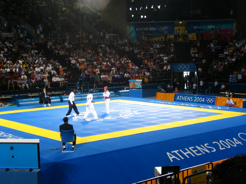 Taekwondo at the Summer Olympics 2004 (Qualification Round)